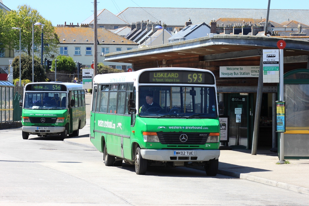 Two of Western Greyhound's Mercedes-Benz Plaxton-bodied midibuses at Newquay Bus Station. nearest the camera is 574 (registration WK02 TUE) on a Liskeard service, while behind is 560 (WK02 BUS) which will soon be on its way to Padstow. from the west. They both carry cherished registrations, a feature of many of this company's buses 'TUE' is one of a series covering the days of the week, and 'BUS' is self-explanatory.